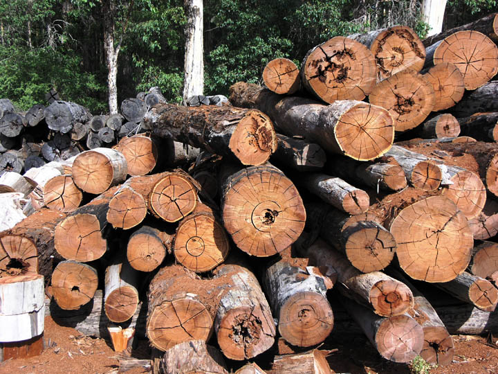 This is a photo I took myself using an Olympus C8080W digital camera. It was taken at Donnelly Mills, south west western Australia.